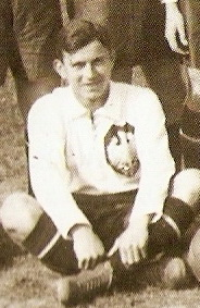 Marian Spoida; image cropped from File:PolskaParyż1924.jpg.